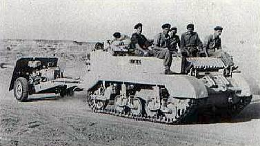 British Cangaroo conversion of the U.S. Stuart tank